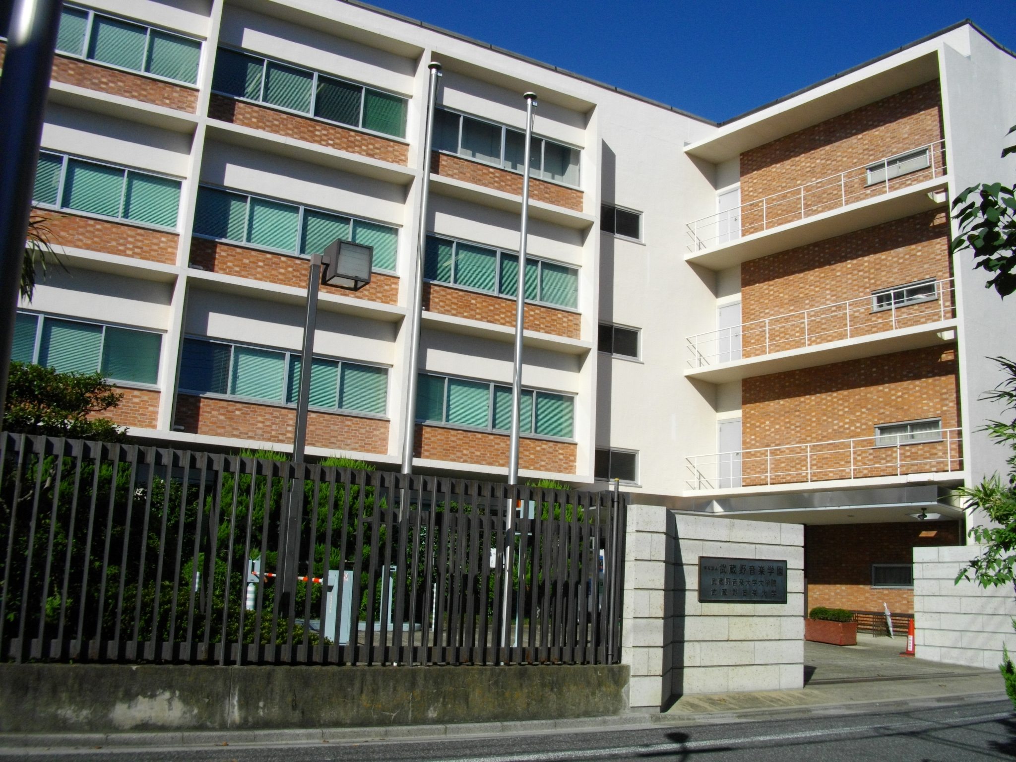 Musashino Academia Musicae